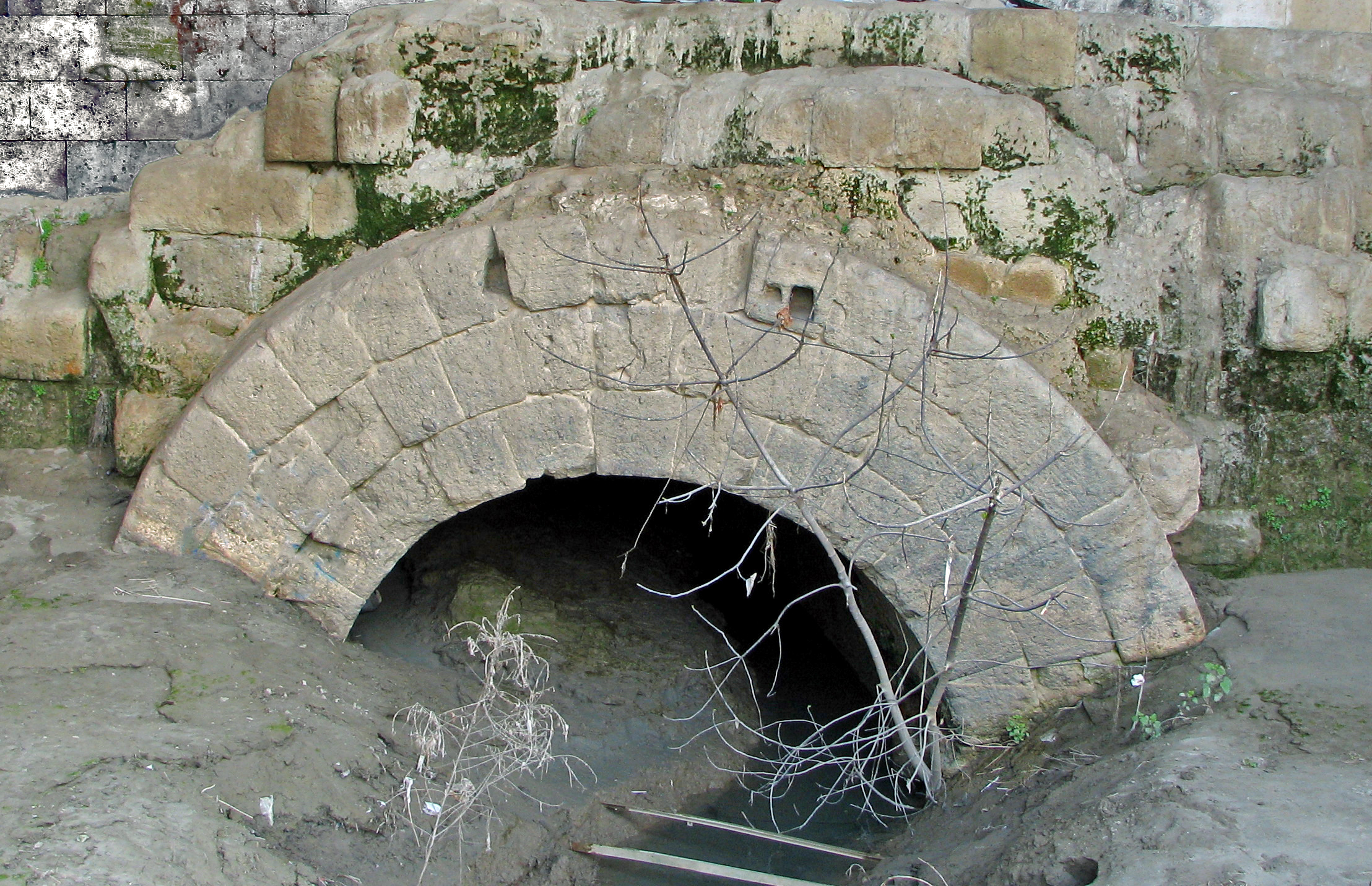 Exit of the Cloaca Maxima, from Ponte Palatino, Rome.